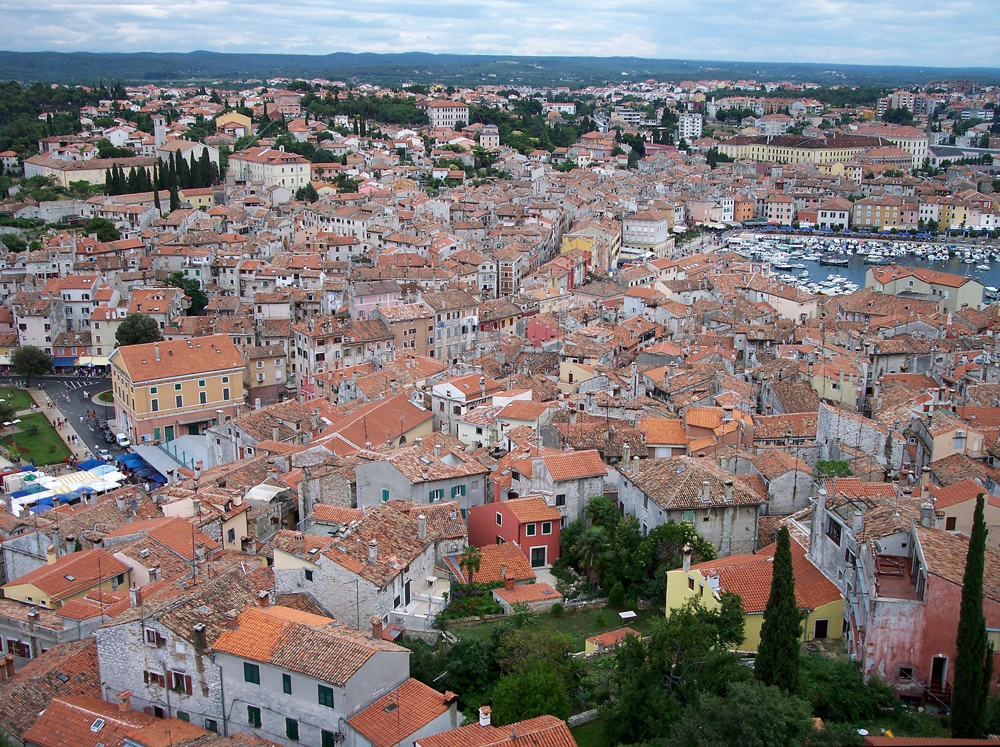 View to Rovinj from Campanile of Sv. Eufemija church. (Croatia)